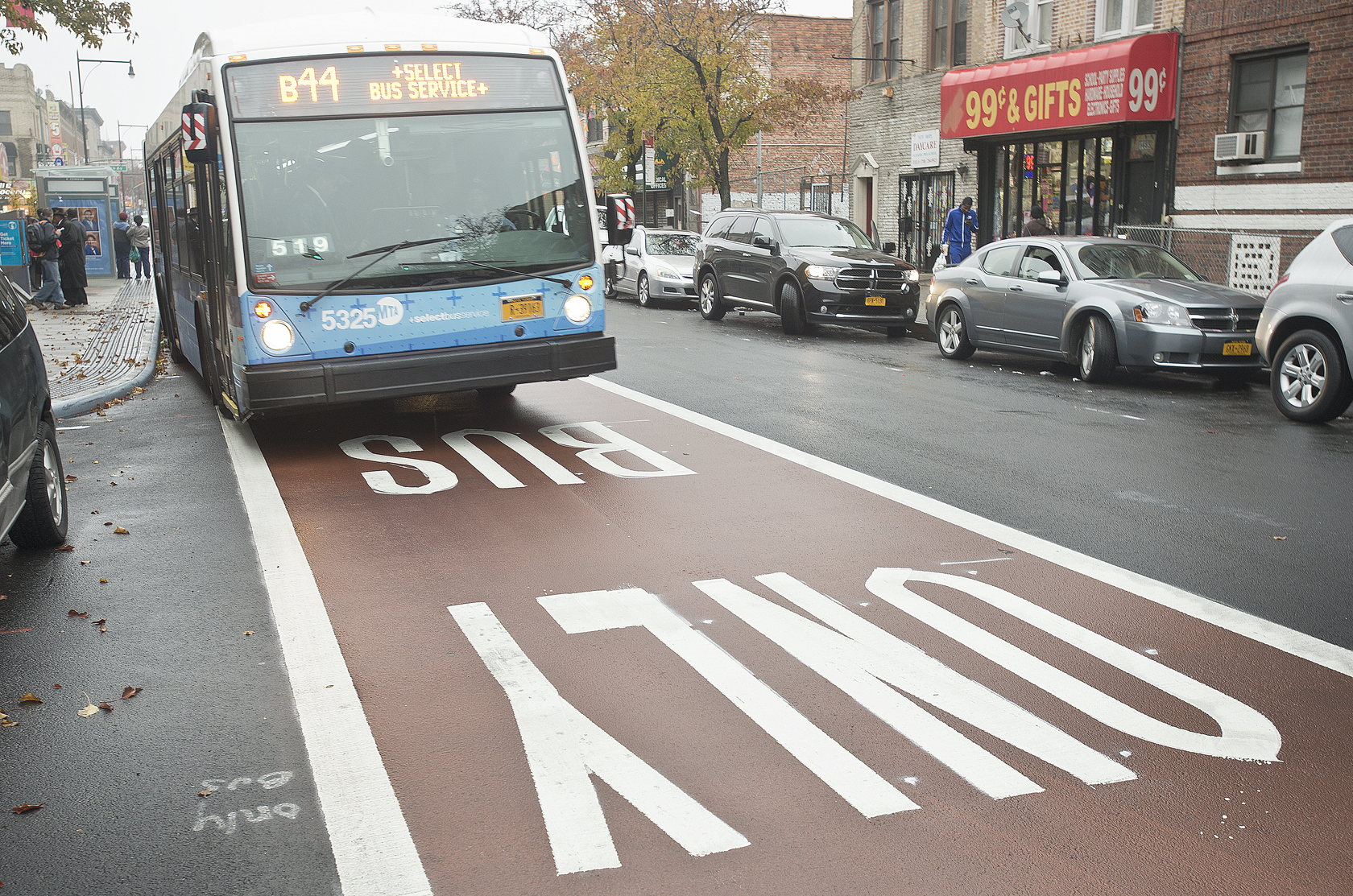 Select Bus Service debuted on the B44 route in Brooklyn, that runs between Williamsburg and Sheepshead Bay, on Sunday, November 17, 2013. A bus moves along at a stop along the route at Nostrand and Church Avenues during the [#//new.mta.info/news-brooklyn-select-bus-service-nostrand-avenue/2013/11/18/select-bus-service-debuts-b44-brooklyn B44 SBS launch] Photo: MTA / Patrick Cashin